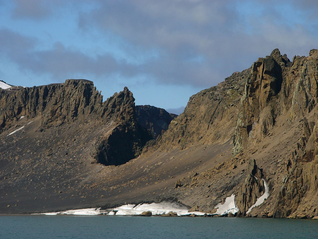 Deception Island Caldera Wall